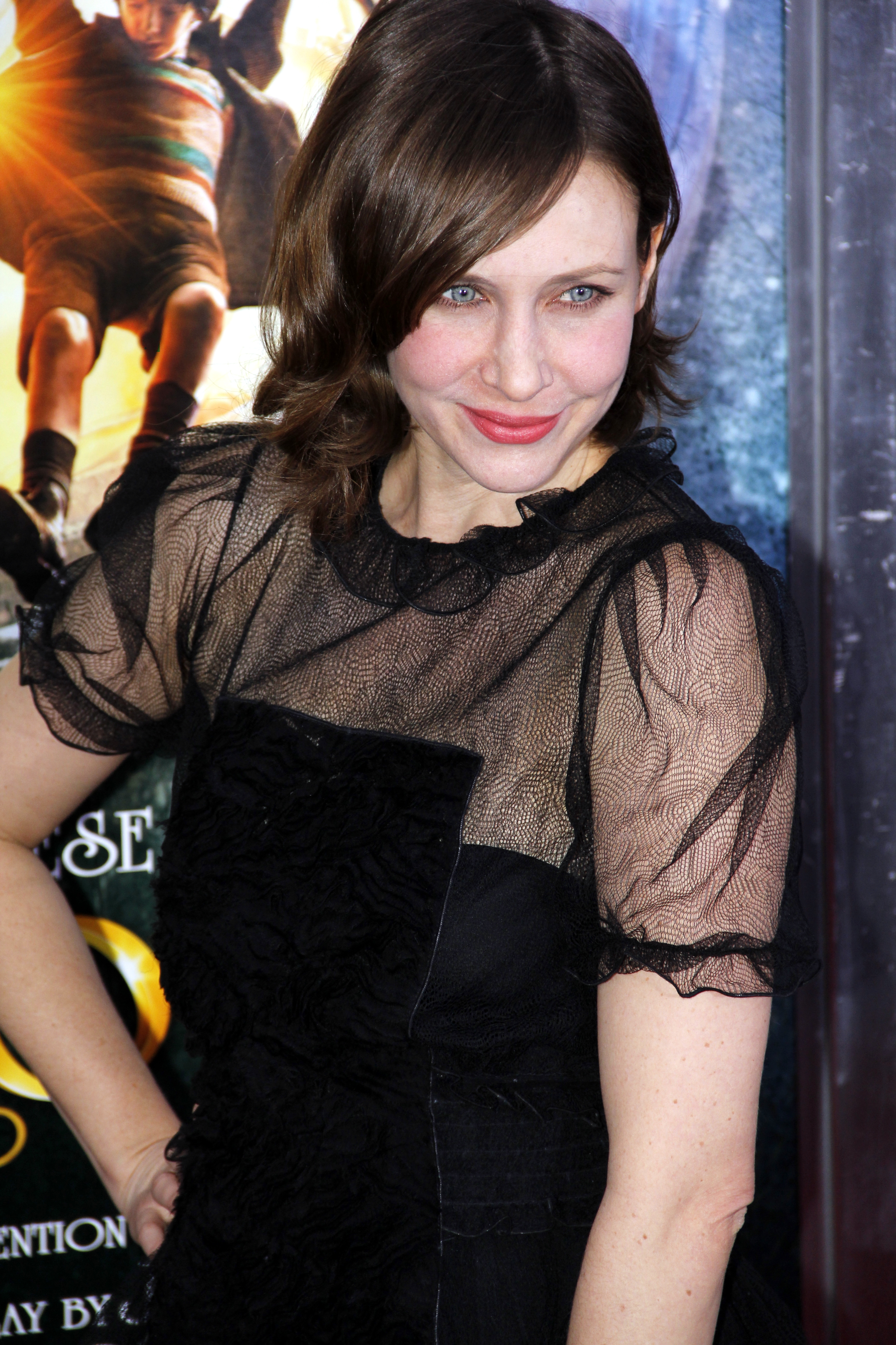 Vera Farmiga at the Hugo Premiere, New York City 2011.